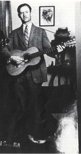 Old-time musician Lowe Stokes, 1922